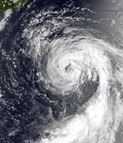 Typhoon Vernon on August 24, 1993